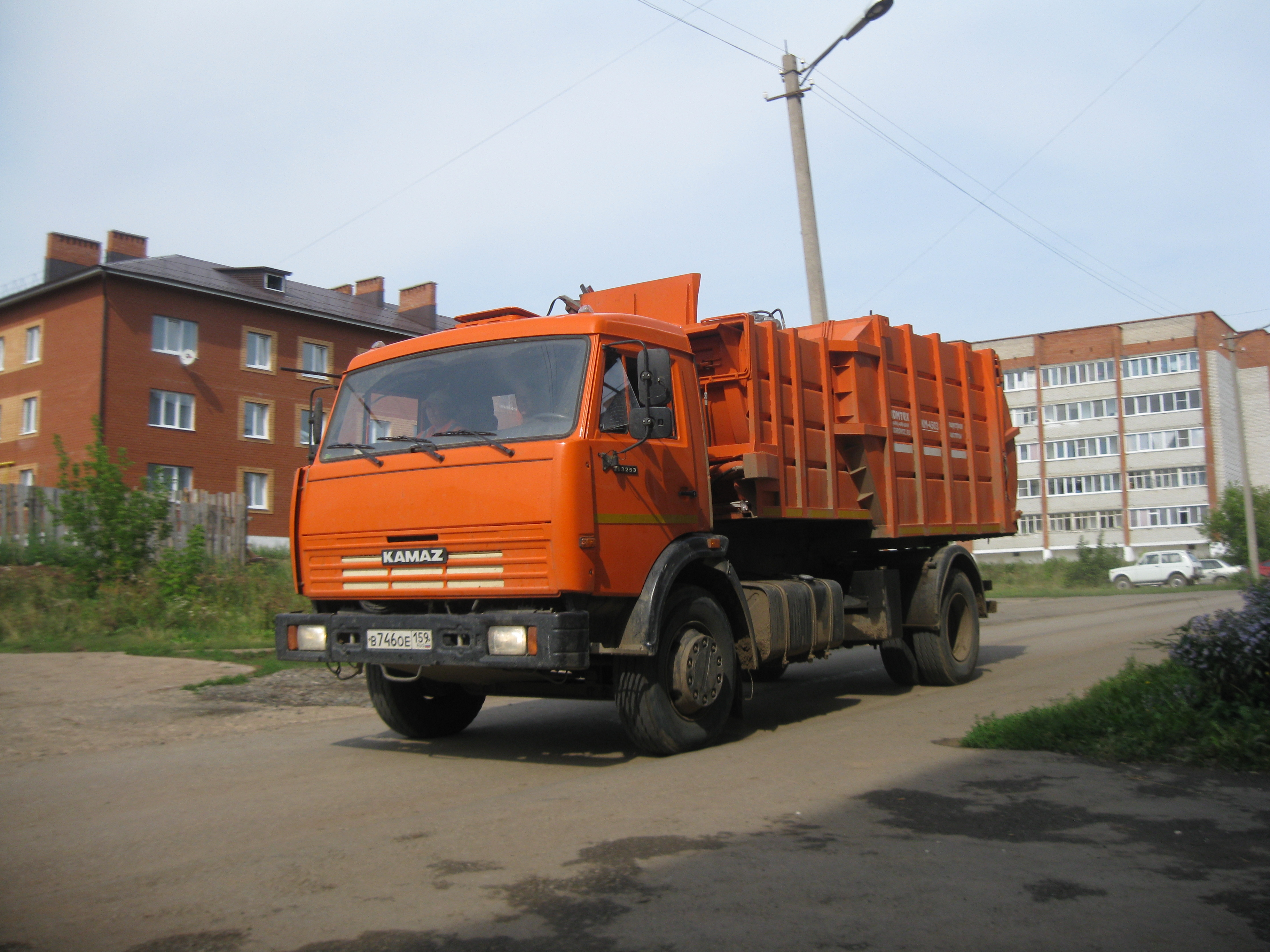 KAMAZ 43253 waste collection trucks in Russia, Perm region, Chernyshka.